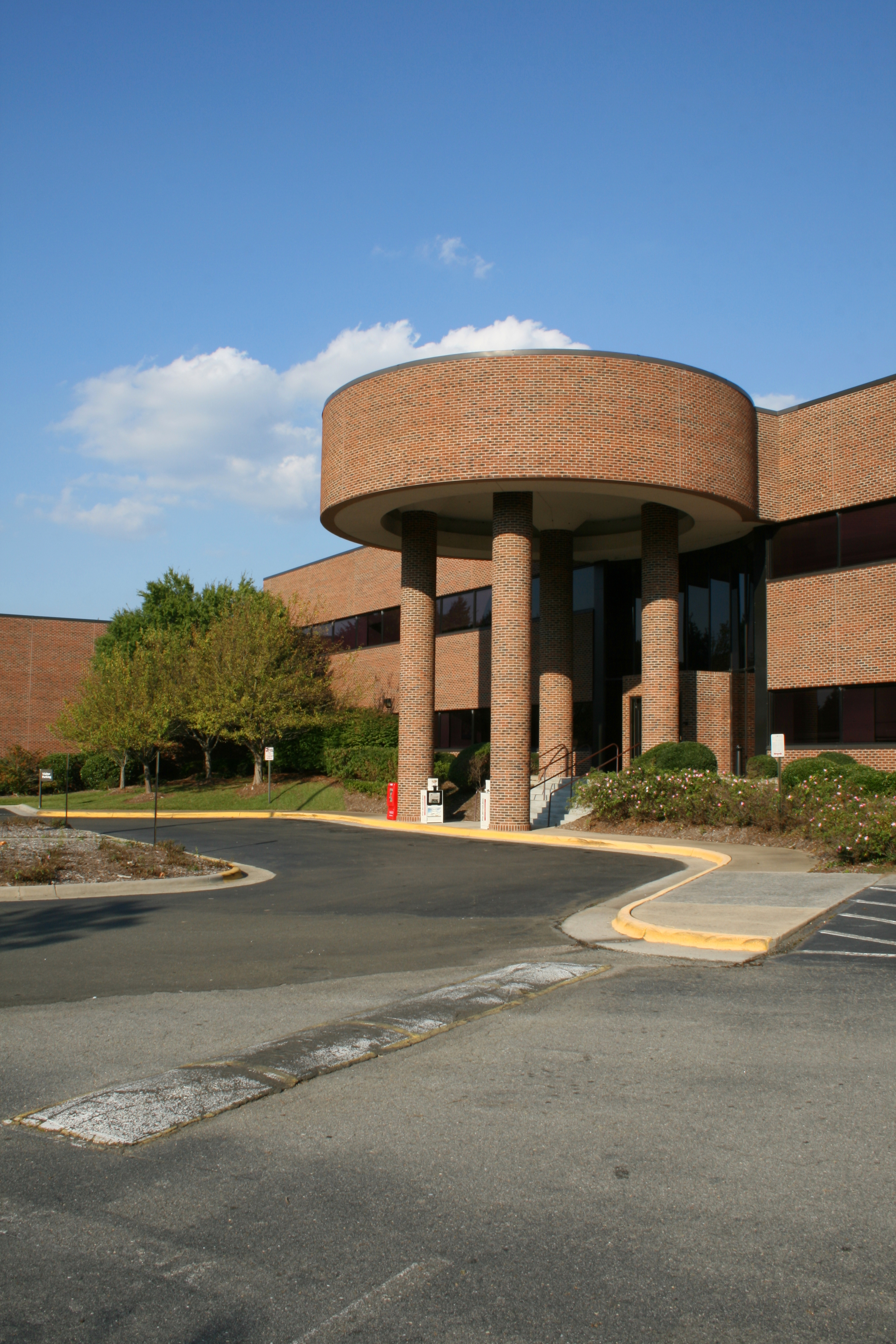 Offices of The Herald-Sun daily newspaper at 2828 Pickett Road in Durham, North Carolina.